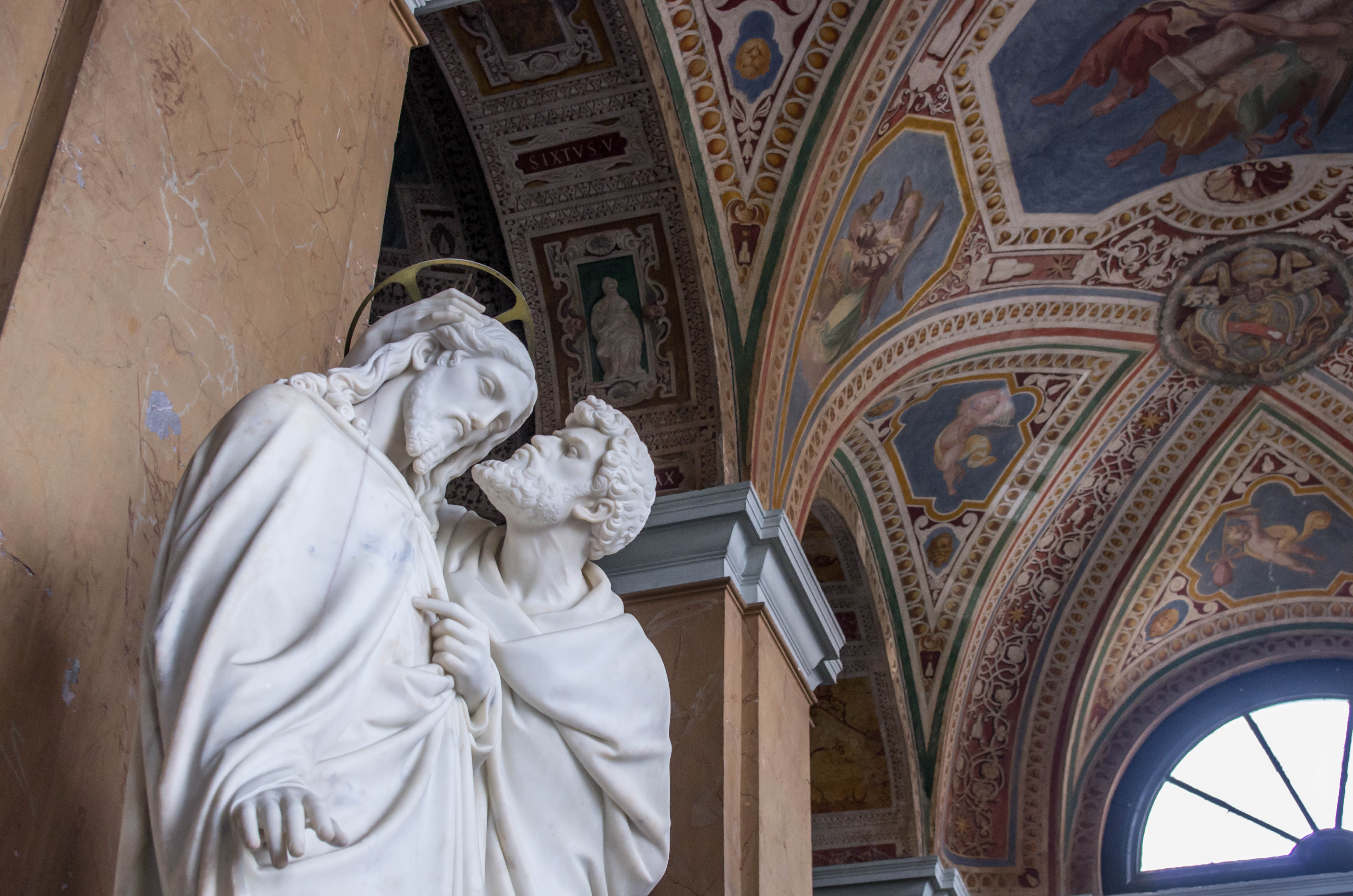 Scala Santa (Rome), OSCULO FILIUM HOMINIS TRADIS (Lukas 22,48)